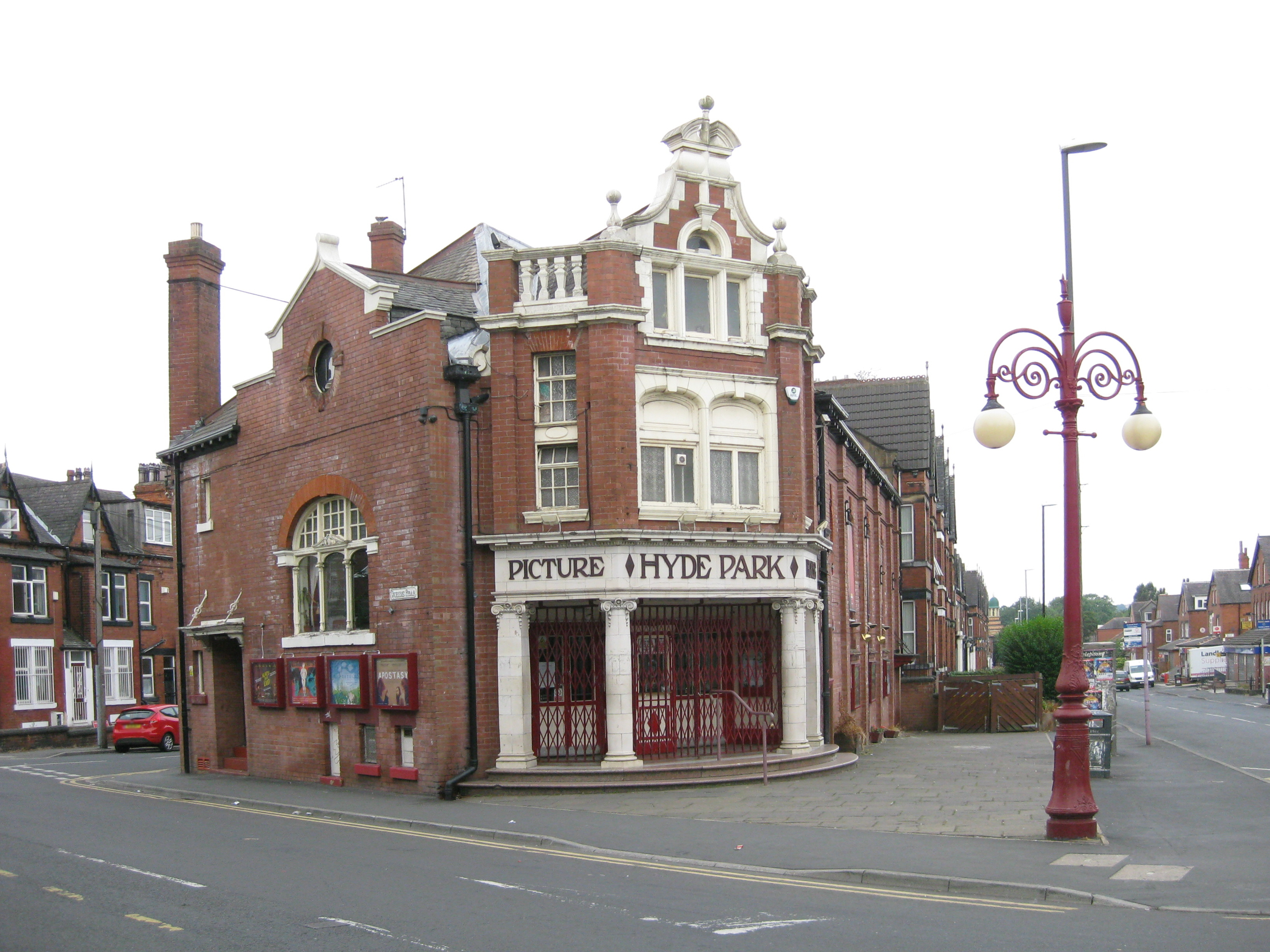 Hyde Park Picture House, corner of Queens Road (left) and Brudenell Road (right).